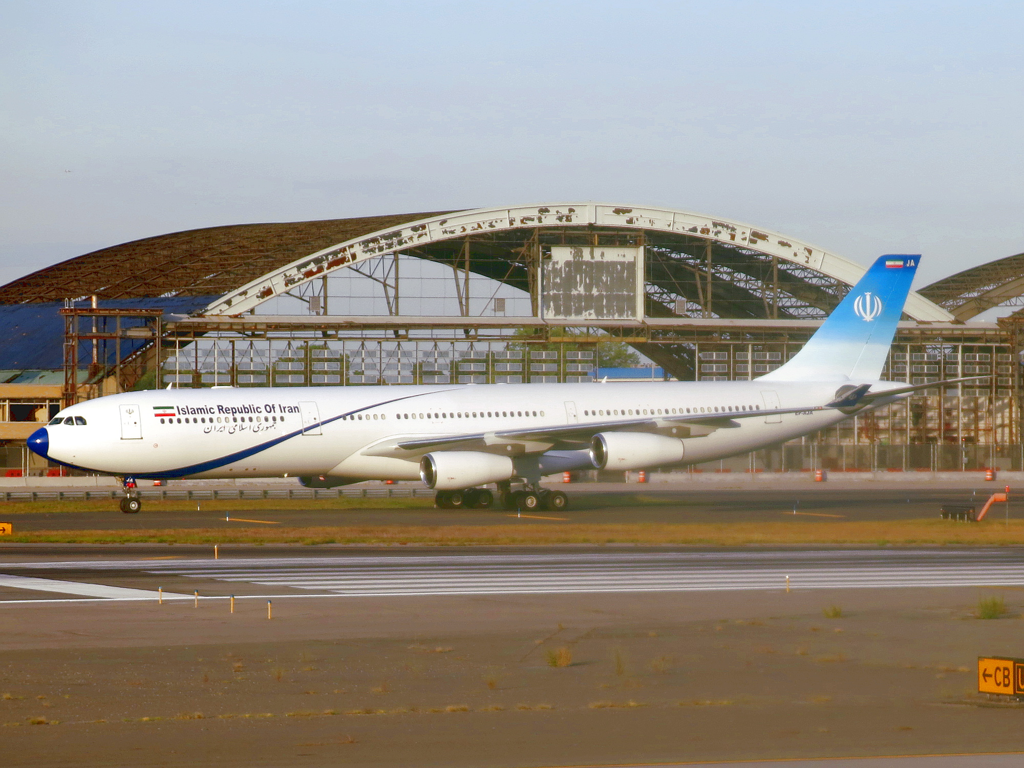 The Iran Government Airbus A340-300, just recently delivered 9 days prior to this picture being taken, is taxiing along Taxiway C, between Taxiways CC and CB, near the threshold of Runway 13L past the under-demolition "triple hangars" to a spot in the cargo area where its delegation will be escorted off the plane. Its presence here is ahead of the 2015 United Nations General Assembly meetings.